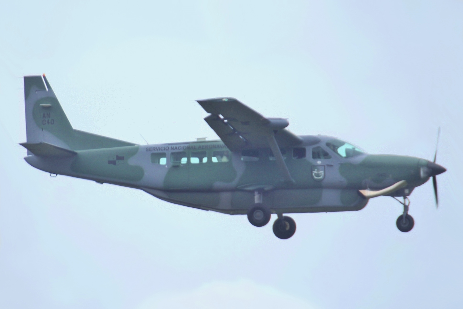 At Panama City Tocumen International